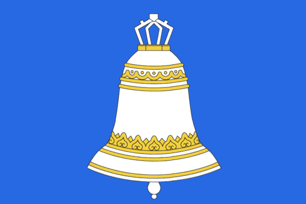 Flag of Zvenigorod, Moscow oblast, Russia